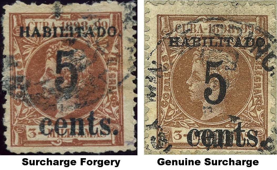 Surcharge forgery and genuine surcharge on Puerto Principe stamps shown side by side.